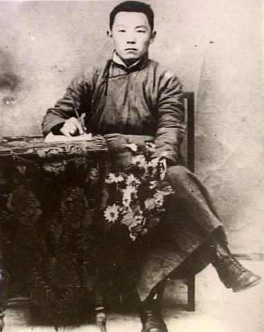 Dashdorjiin Natsagdorj, famous poet from Mongolia, in 1926.